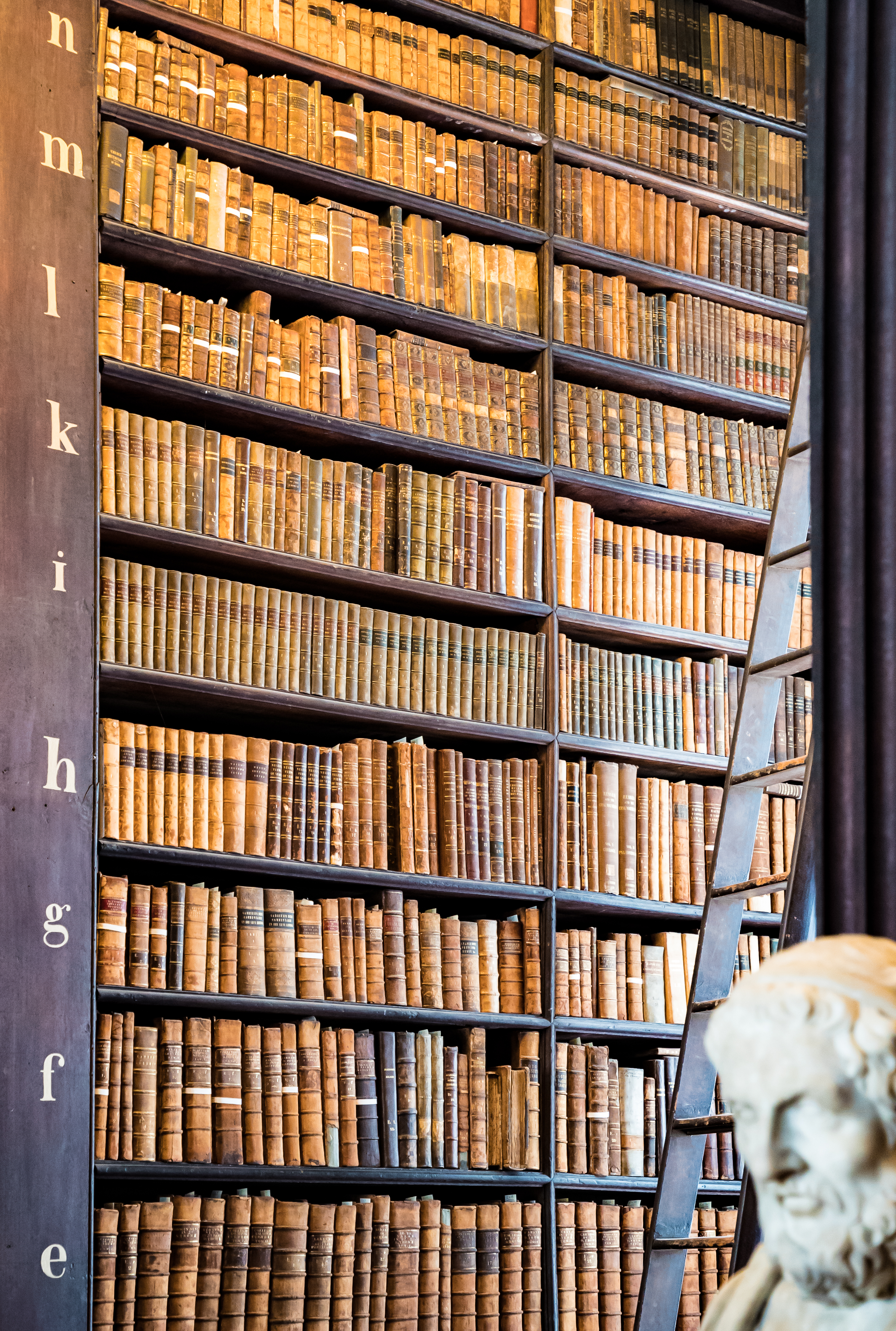 Long Room, Old Library, Trinity College, Dublin Wikidata has entry Q33123186 with data related to this item.